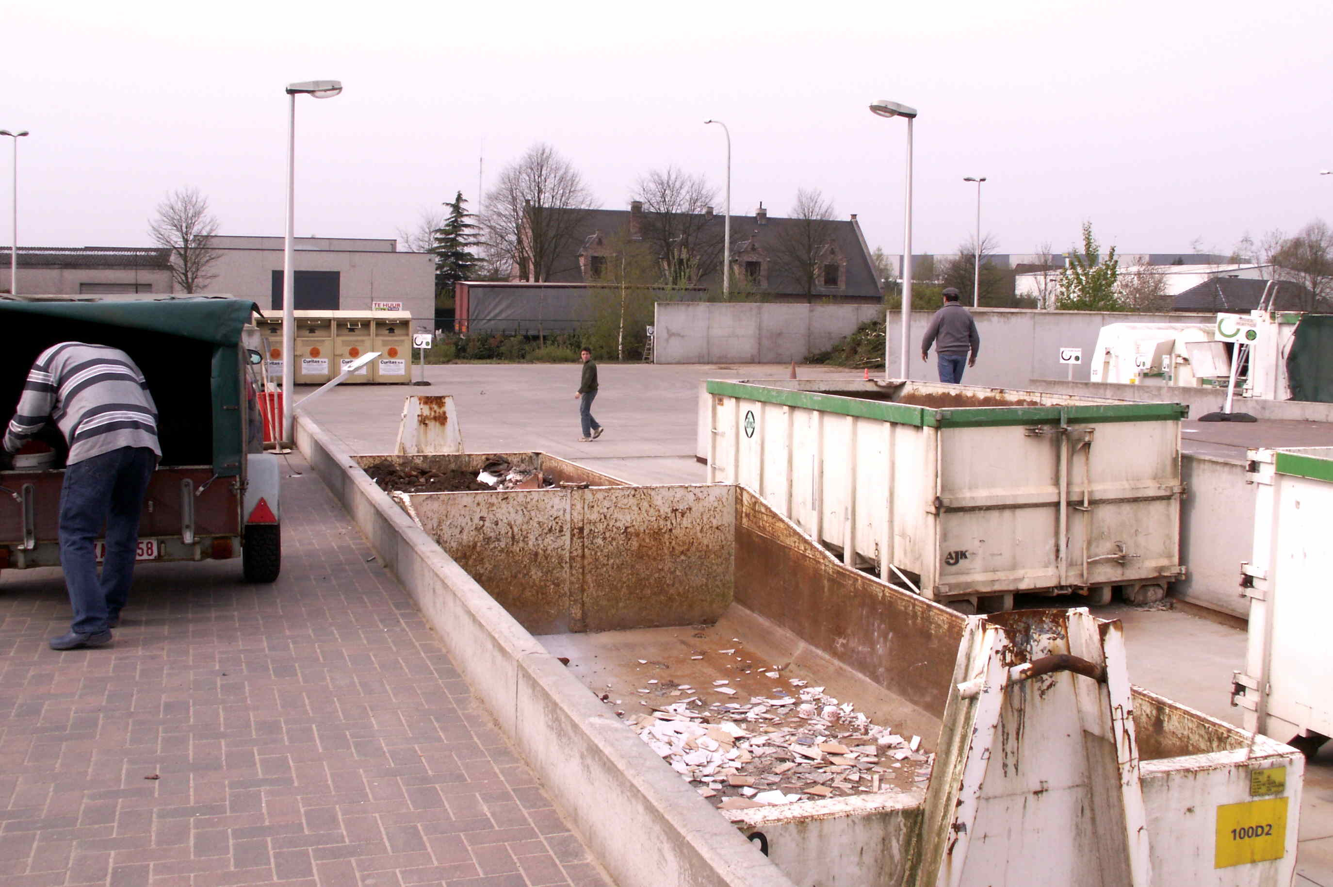 A civic amenity site, situated in Belgium (Aalst)